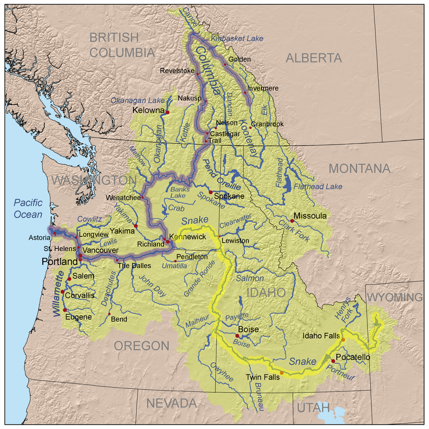 This is a map of the Columbia River watershed with the Snake River highlighted in yellow and the Columbia River highlighted in blue.